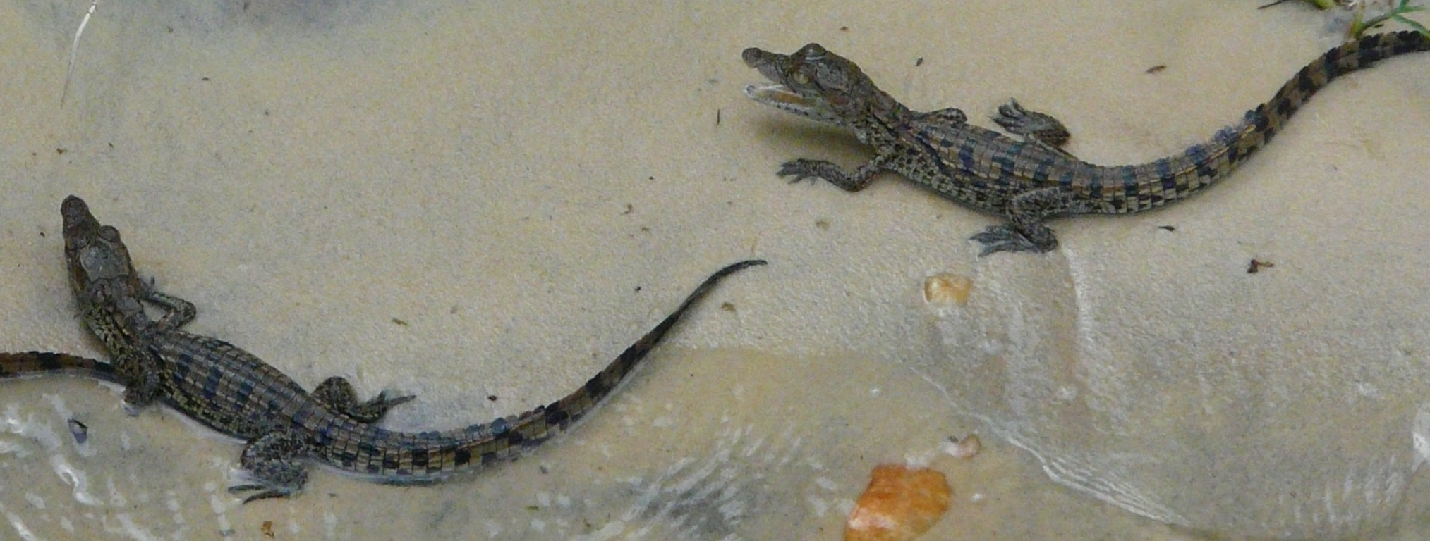 Hatchling Nile Crocodiles